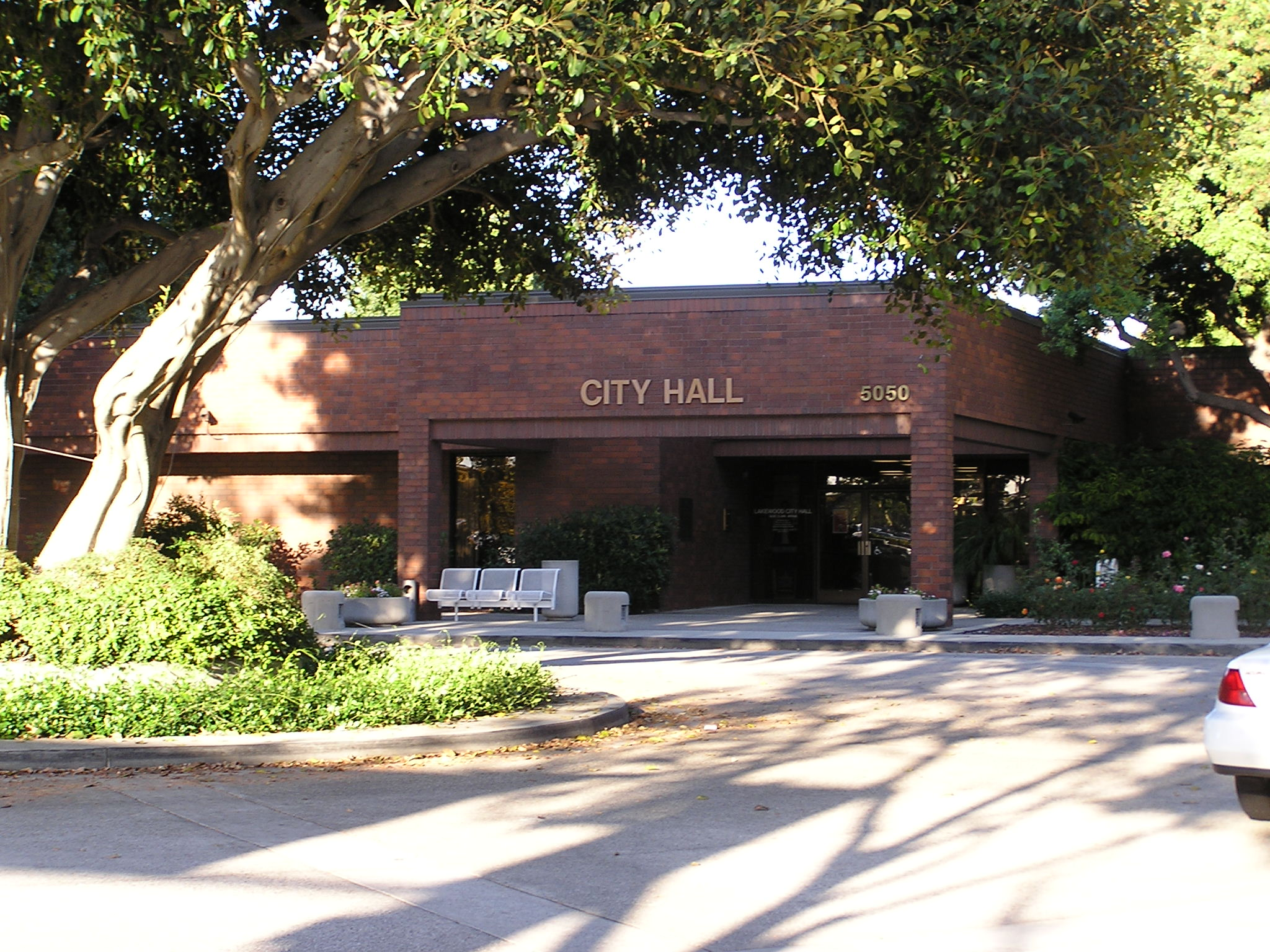 Lakewood, California City Hall